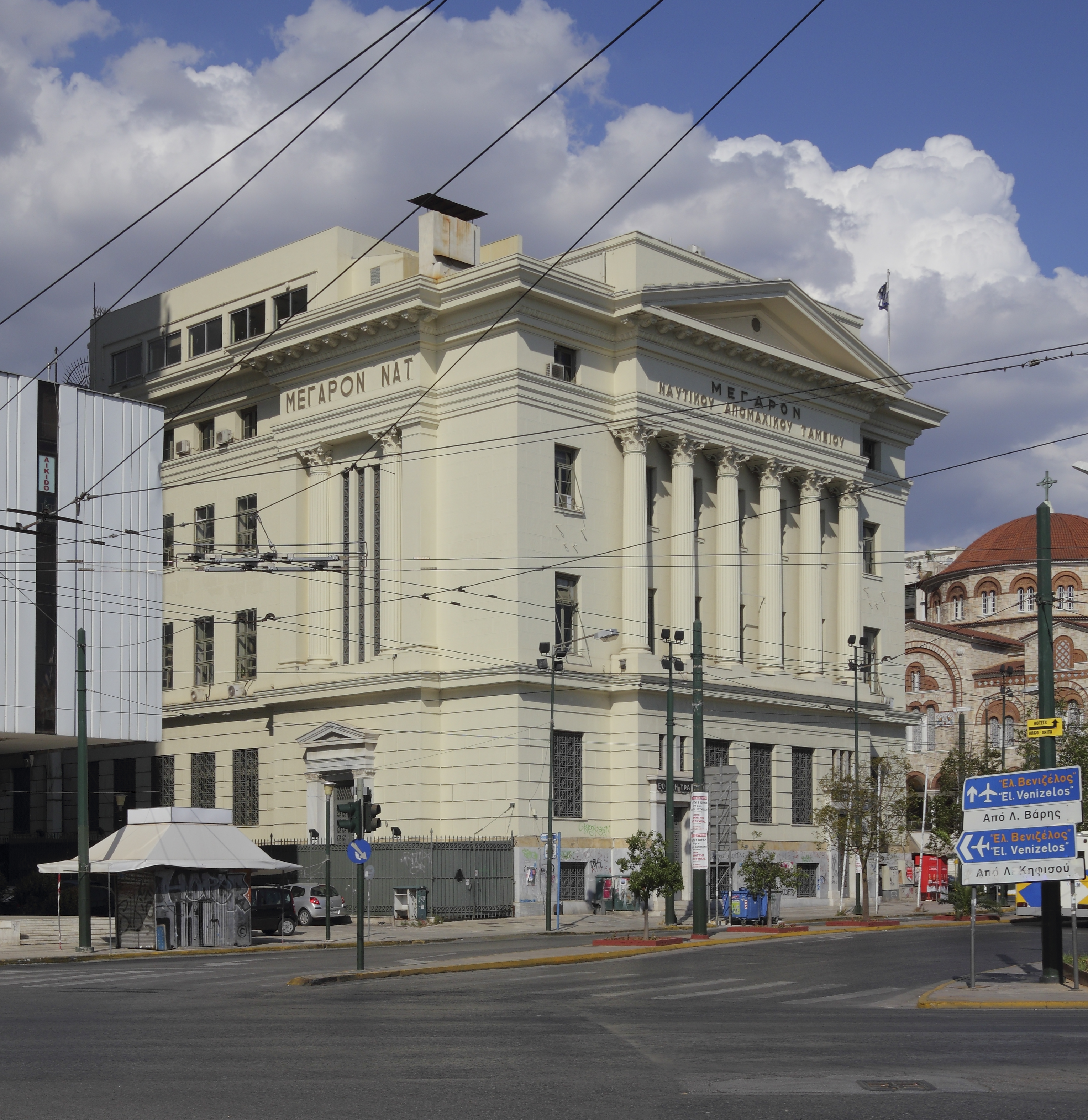 Manor of «Navtikou Apomahikou Tamiou» (Maritime Retirement Fund) in Piraeus (Attica, Greece)